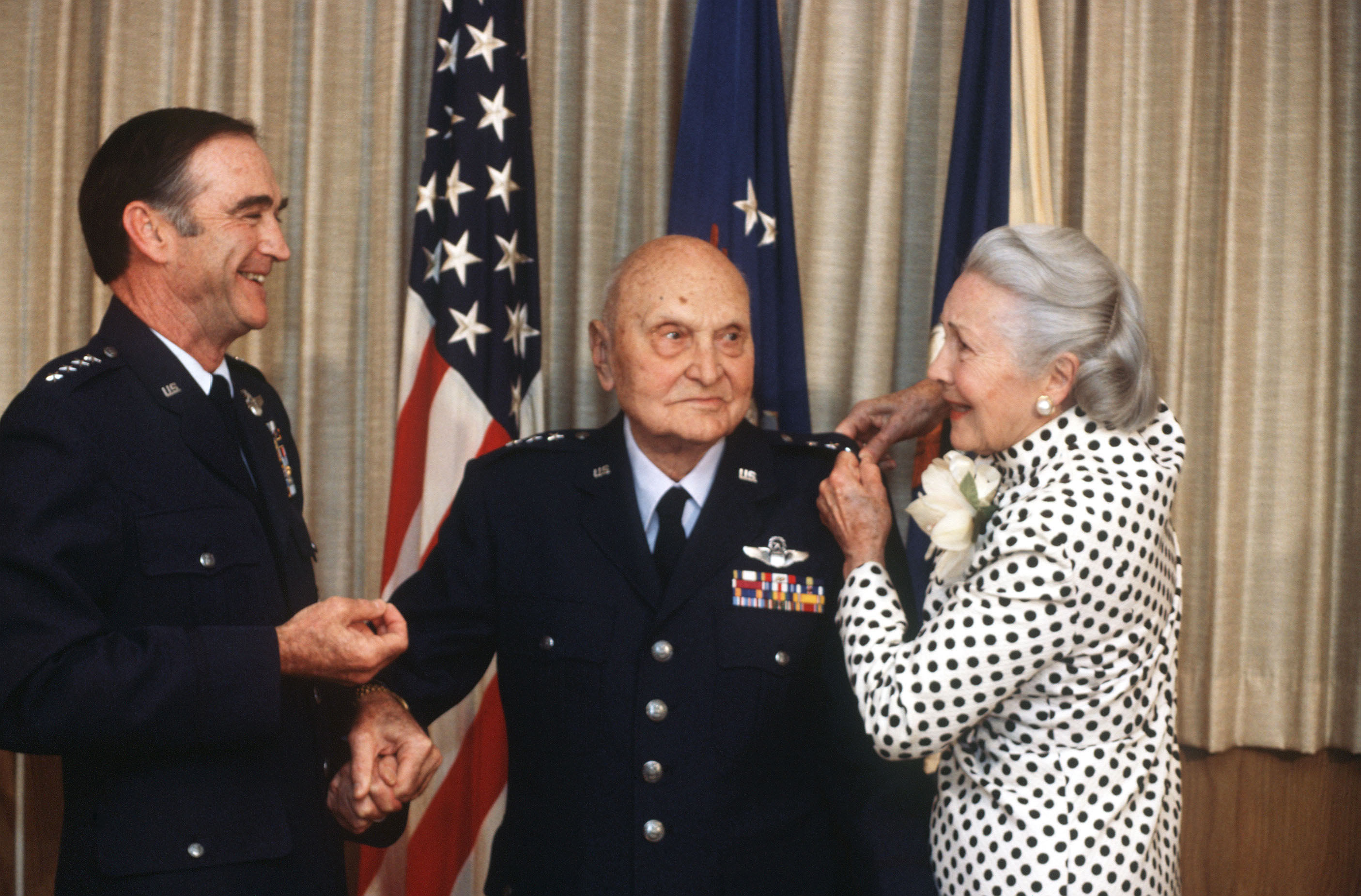 Eakaer receives his fourth-star, pinned by Air Force Chief of Staff General Charles Gabriel (left) and his wife Ruth (right), April 1, 1985.